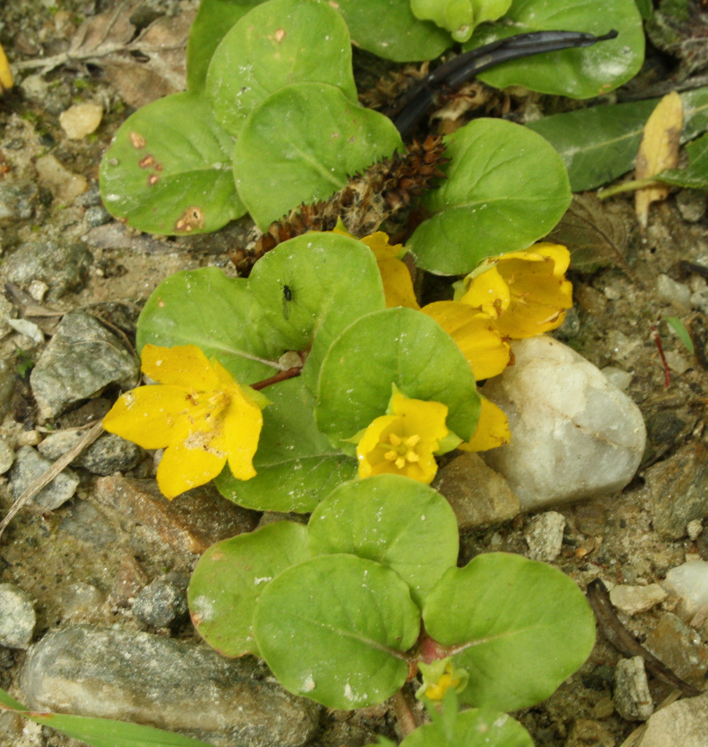 Lysimachia nummularia